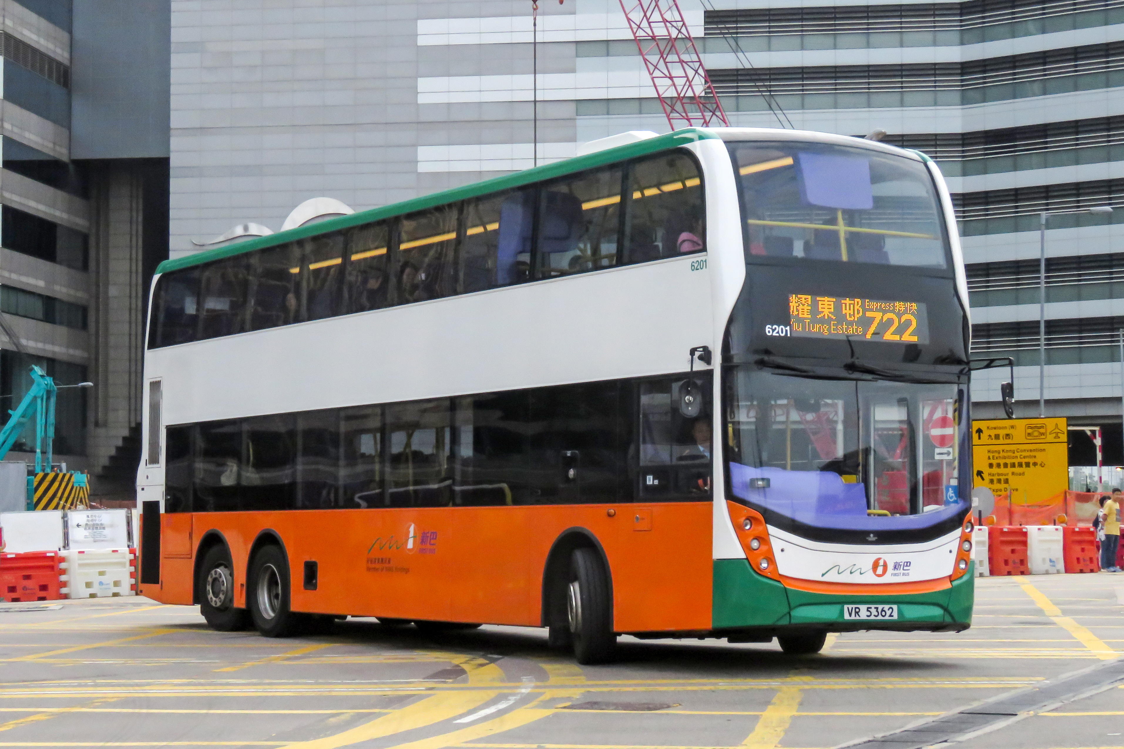 12.8m Super Show! Missed that 6136.